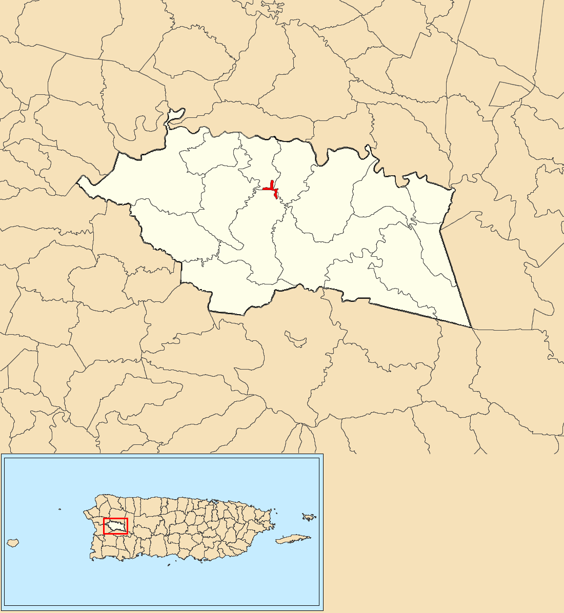 Las Marías barrio-pueblo, Las Marías, Puerto Rico locator map